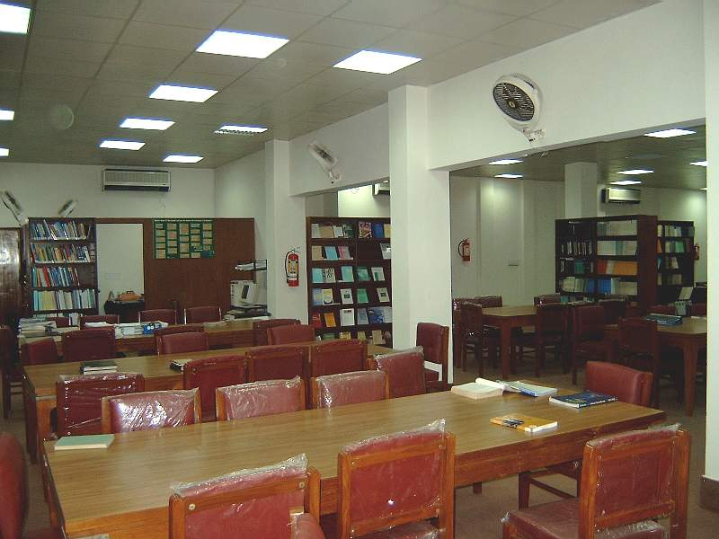 I've taken this picture and released it for public domain.